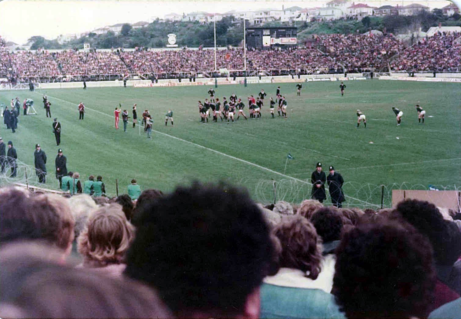 Photo of the 1981 Springbok vs All Blacks rugby game showing Police lining the pitch and barbed wire.